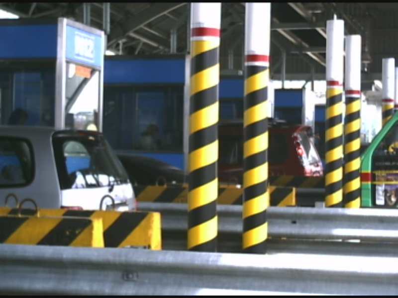 The interior of North Luzon Expressway Balintawak Toll Barrier in Caloocan City.. The interior of North Luzon Expressway Balintawak Toll Barrier in Caloocan City..